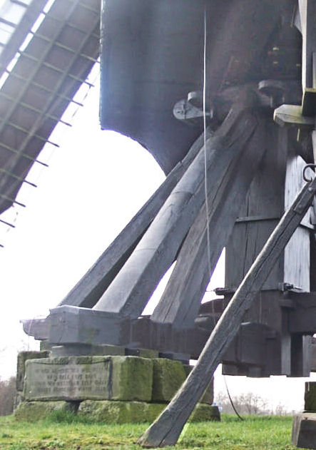 Cropped Picture Wissinks Möl (Windmill in Usselo, Enschede, Netherlands)